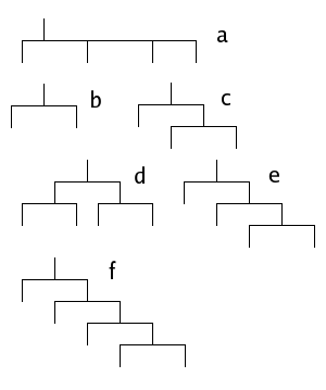 Mobile diagrams. See "Stars of Higher Multiplicity", David S. Evans, Quarterly Journal of the Royal Astronomical Society 9 (December 1968), pp. 388 ff., [1].